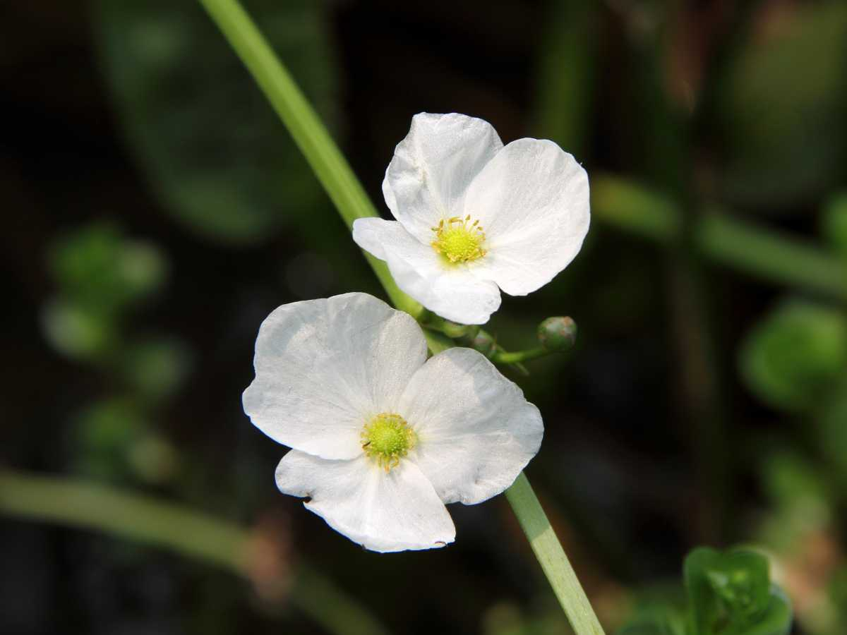 I am an acquatic plant with submergent leaves, 40 to 60 cm long, attached by petioles flatly triangular, my leaf blades being lanceolate or narrowly oval. I am widely cultivated for and used in ponds and artificial aquatic habitats.